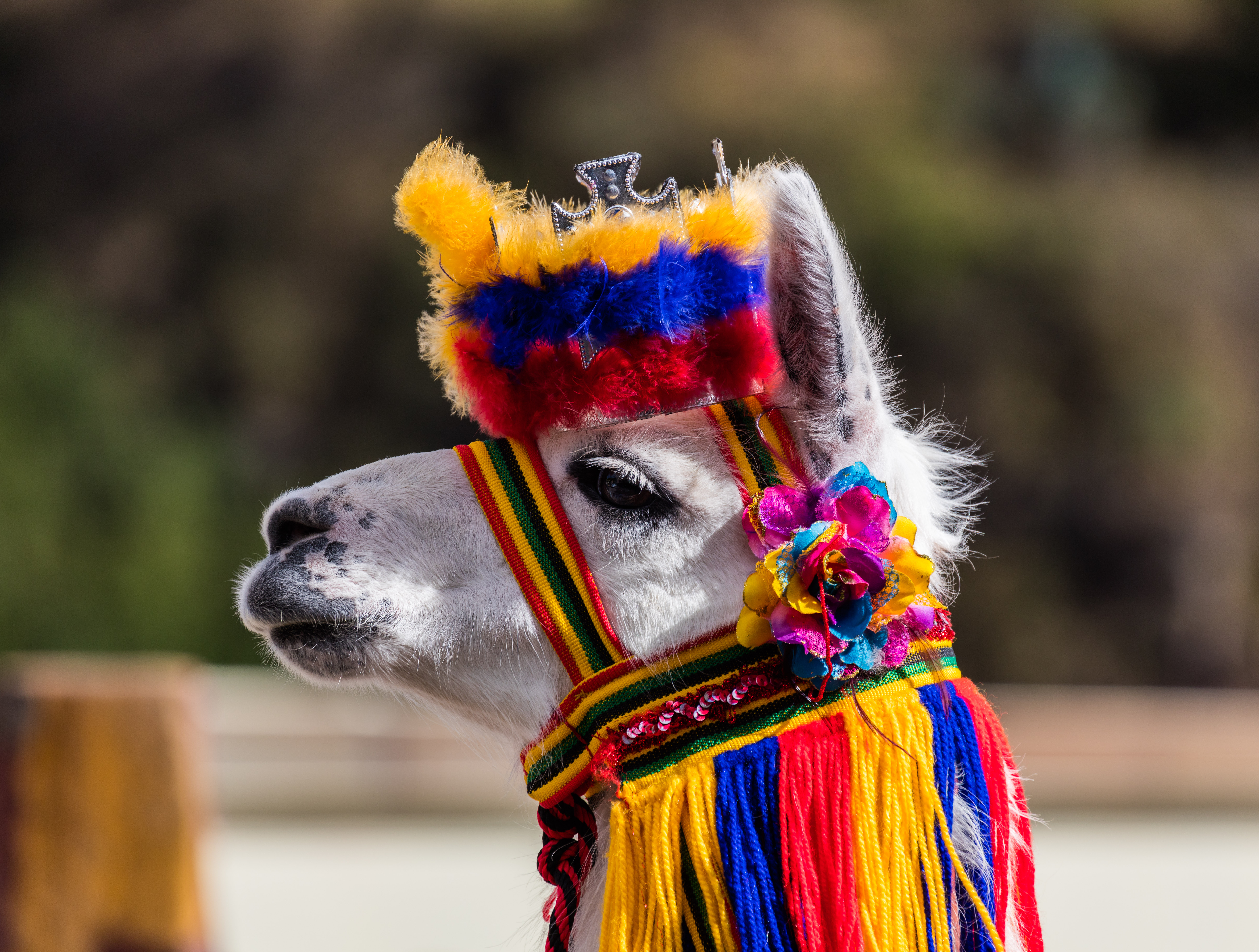 Lama head (Lama glama), Ipiales, Colombia